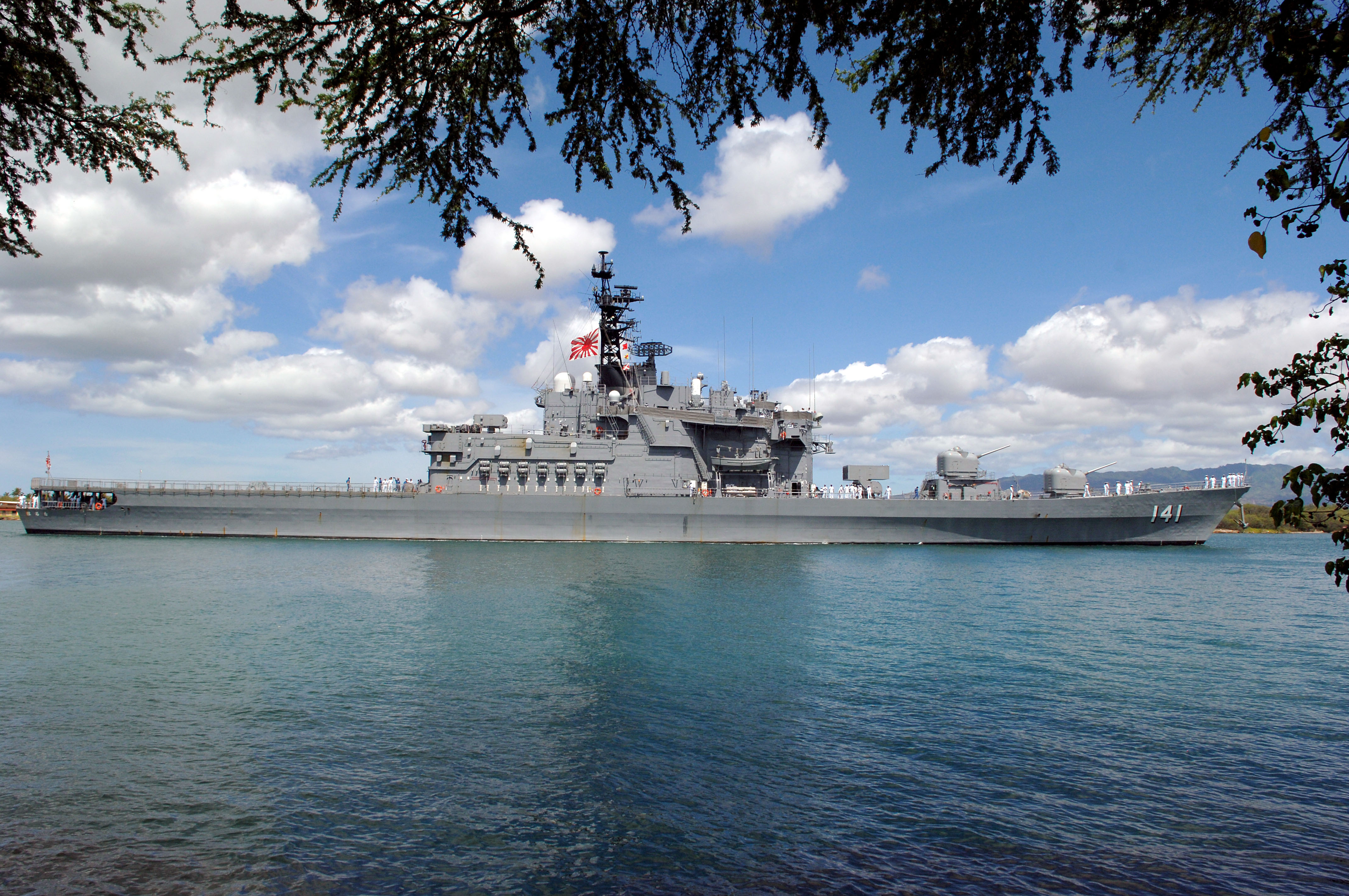 The Japan Maritime Self Defense Force ship JS Haruna (DDH-141) pulls into Pearl harbor for a scheduled port call before starting Rim of the Pacific (RIMPAC) 2008.